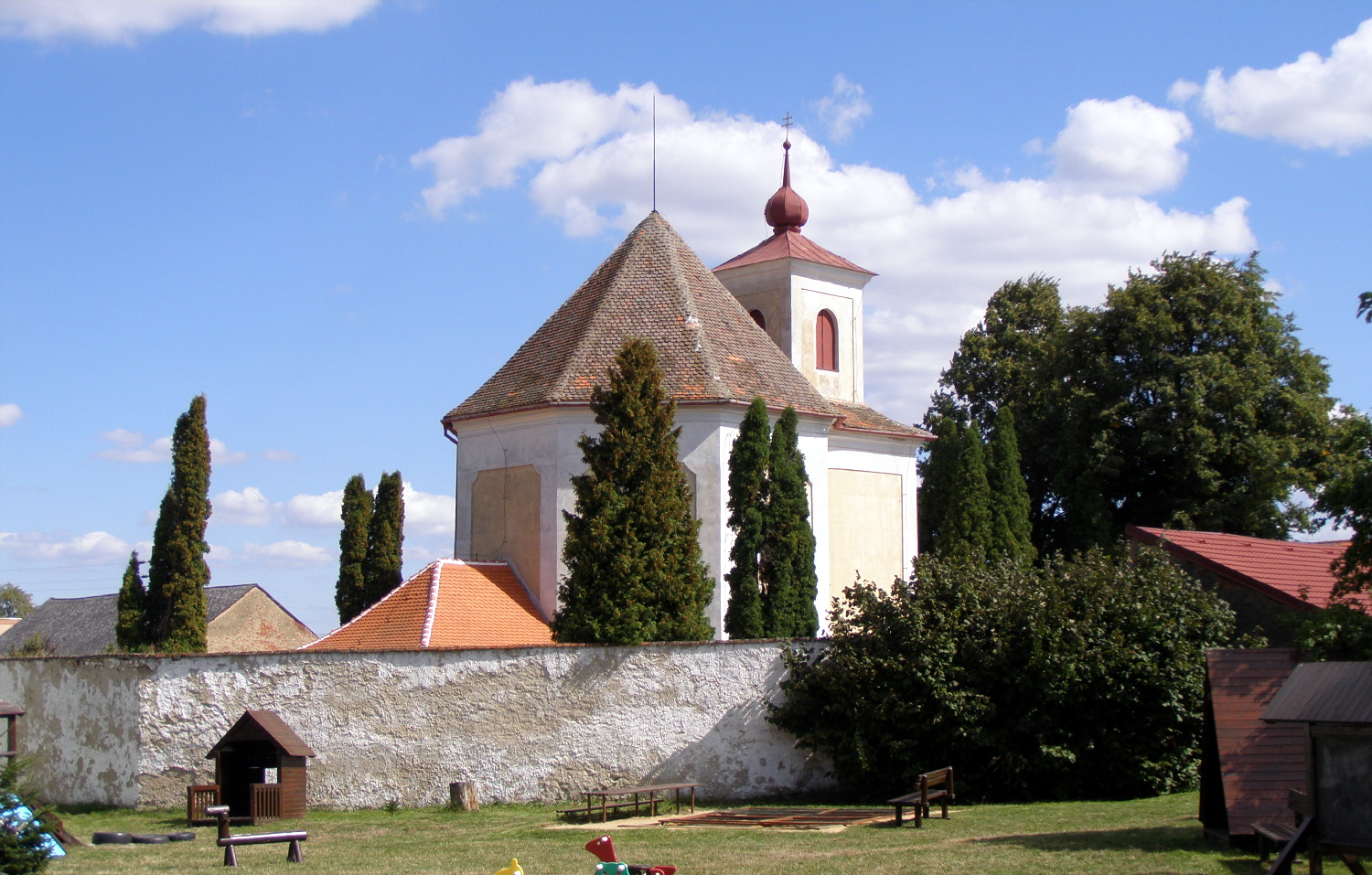 Radkovice village. Fourteen Holy Helpers church. Built in 1715